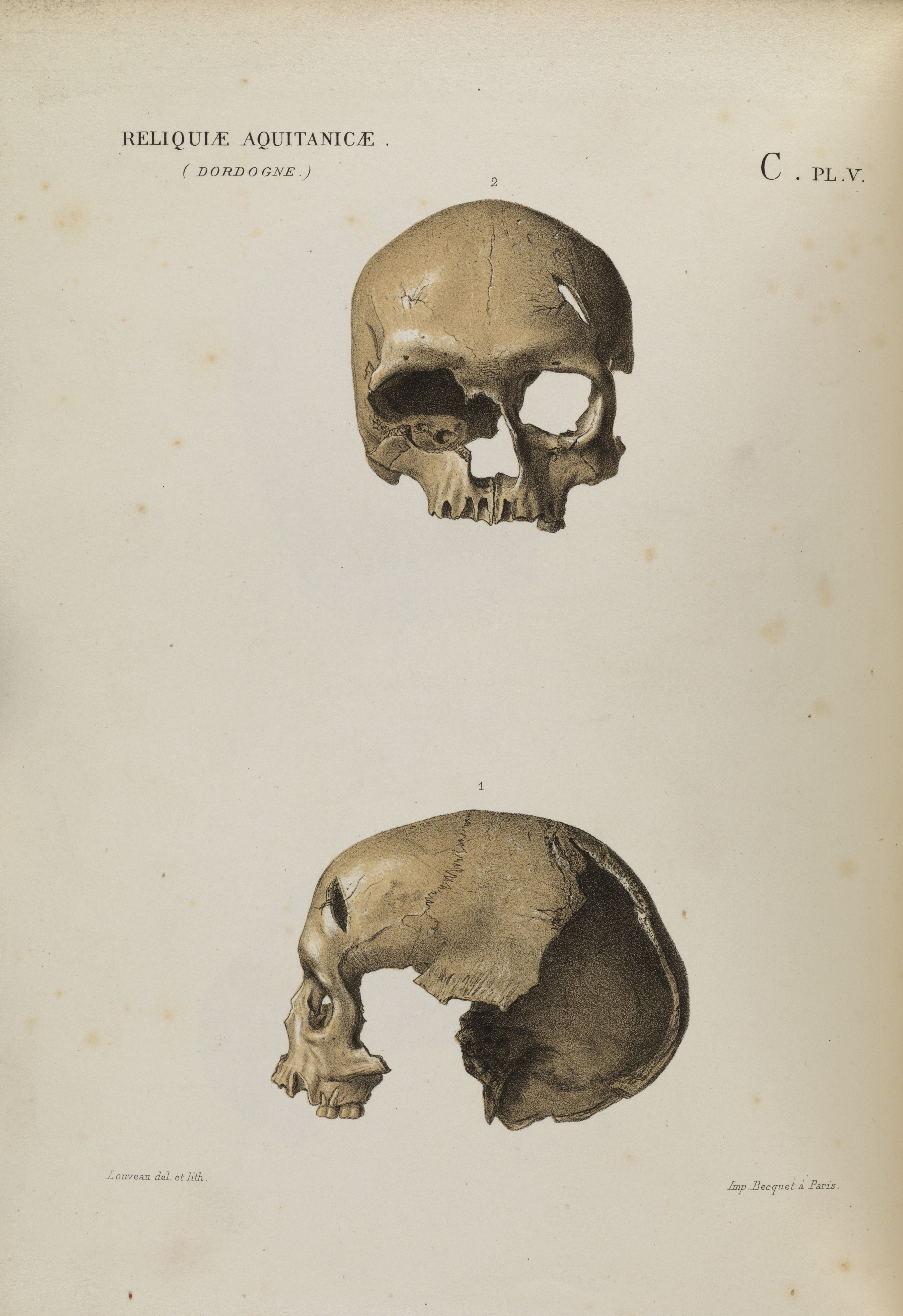 Reliquiæ aquitanicæ : being contributions to the archæology and palæontology of Périgord and the adjoining provinces of southern France / by Edouard Lartet and Henry Christy ; edited by Thomas Rupert Jones. 1875. Rare Books Keywords: Paleontology